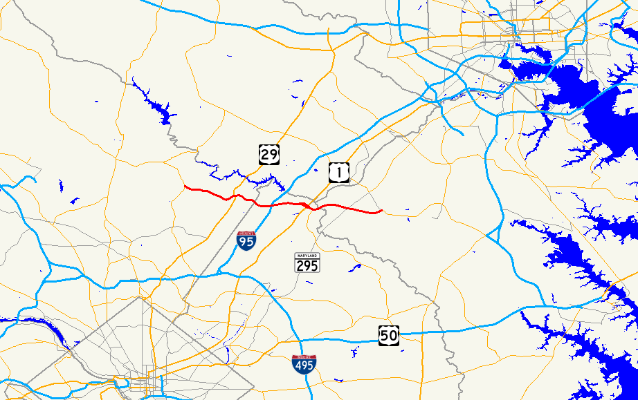 Map of Maryland Route 198